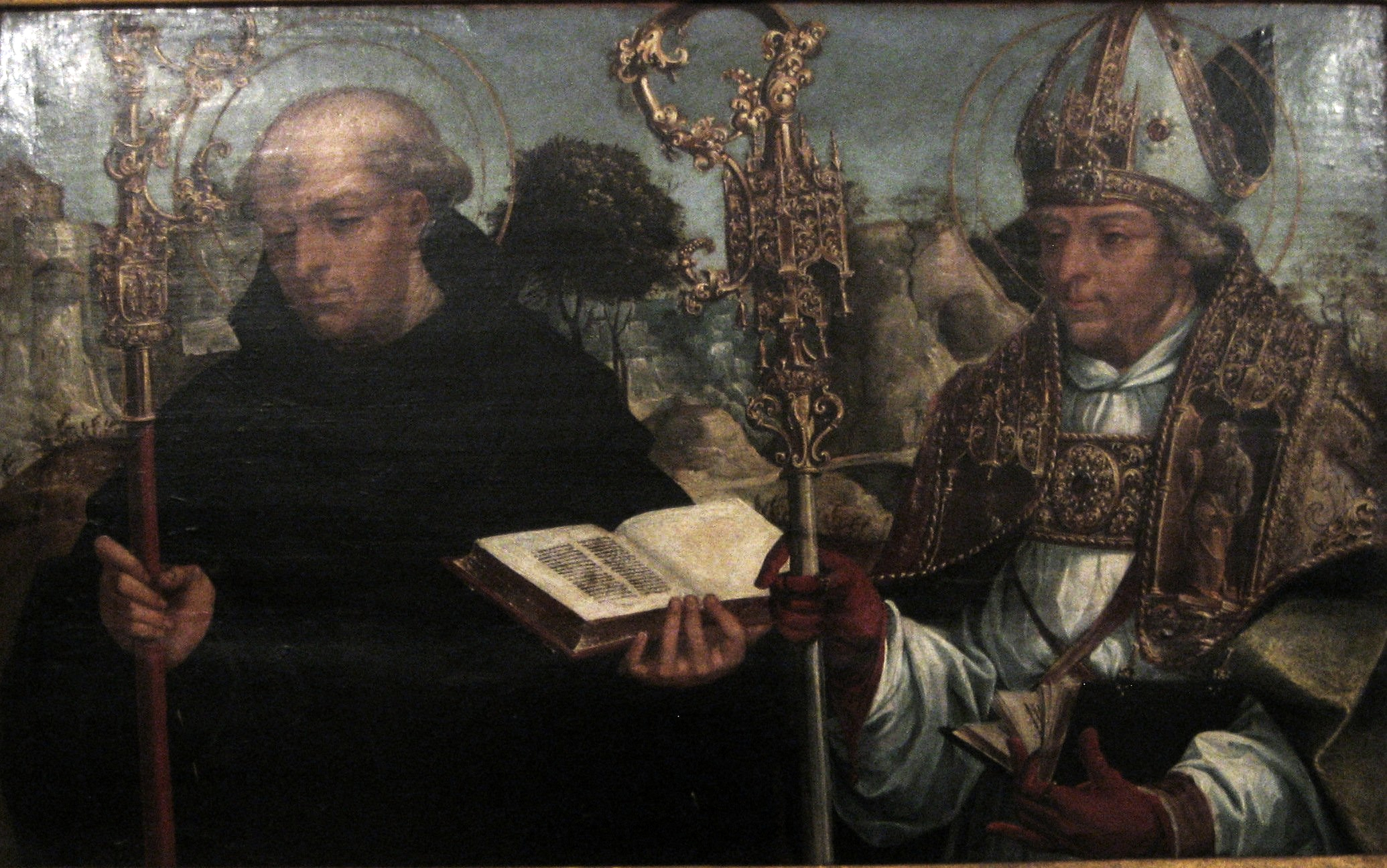 Saint Benedict and Saint Ambrose, painting by the Master of Sardoal, 16th century, Centro de Apoio Social de Runa, Portugal